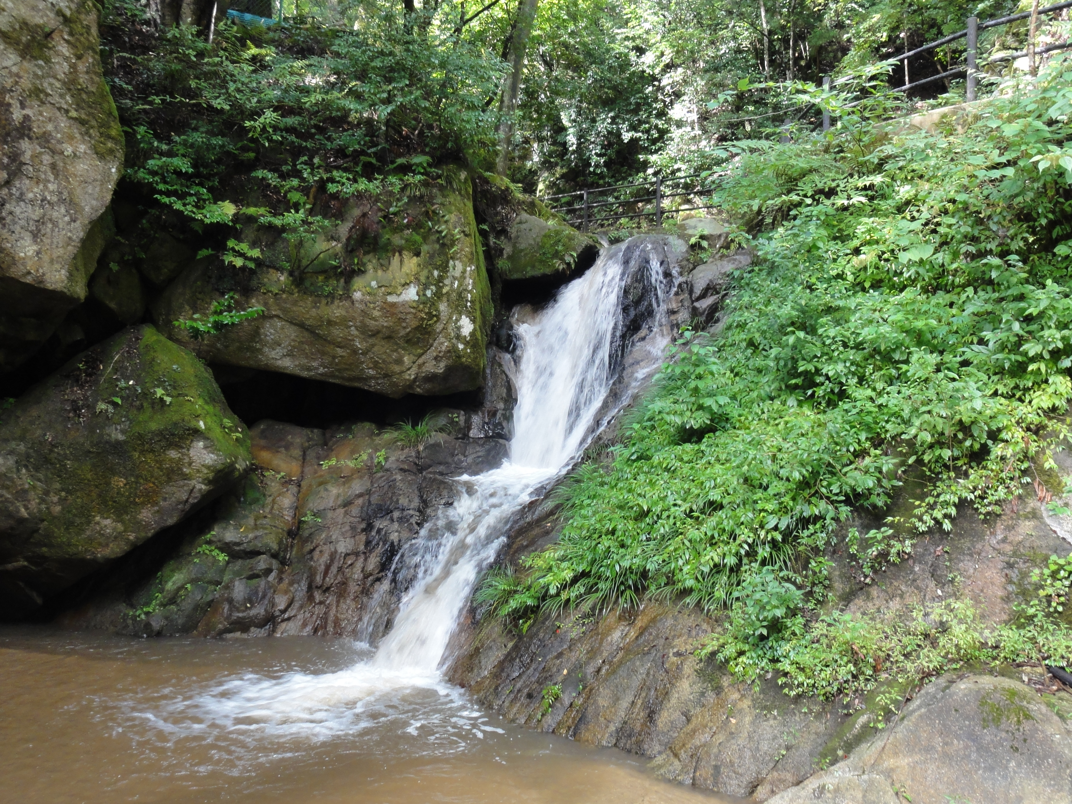 Waterfall of Hakuryu,Kyoto Pref., Japan